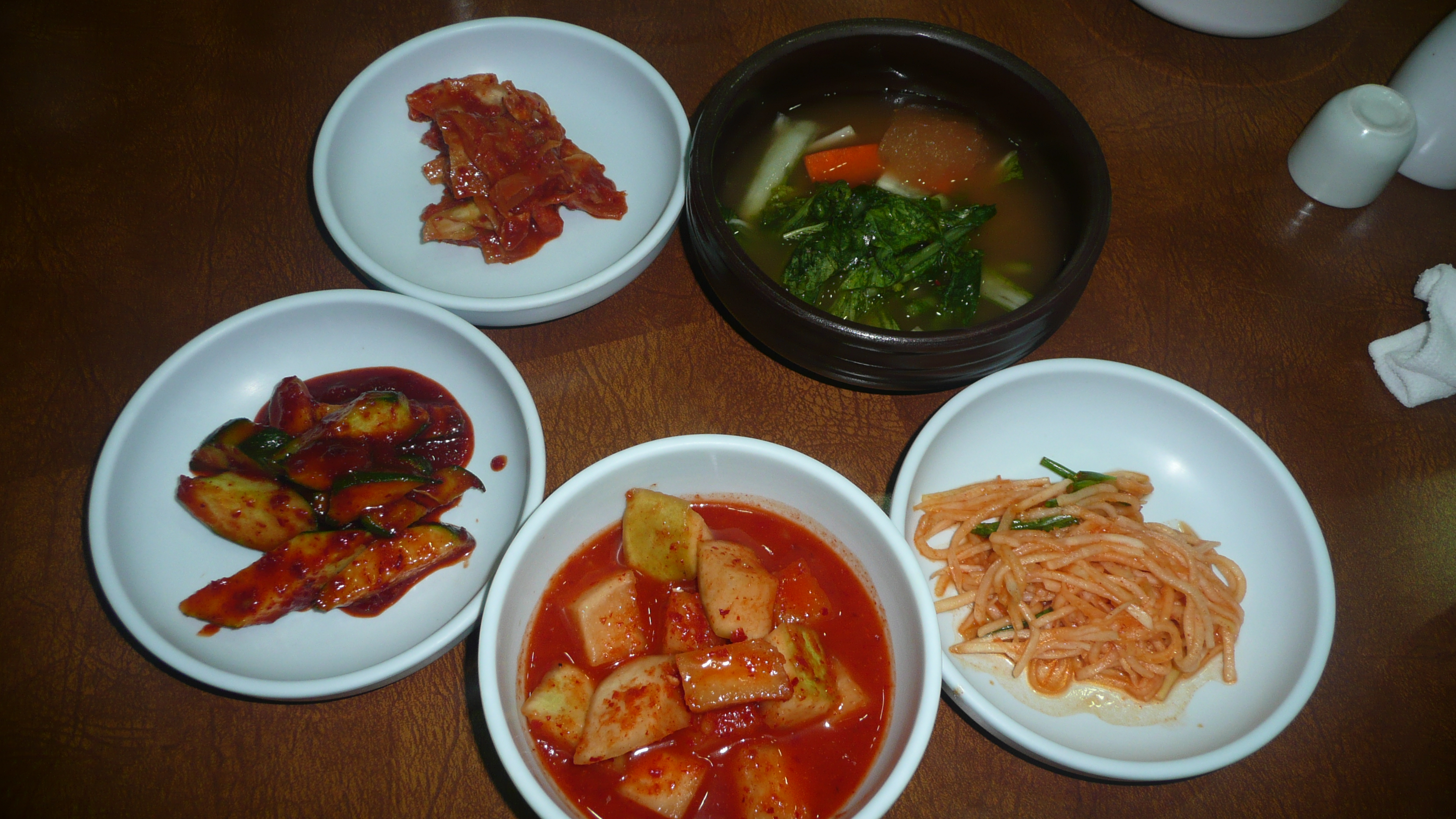 Five different varieties of Kimchi as appetizer in Korea, in a restaurant in Daegu